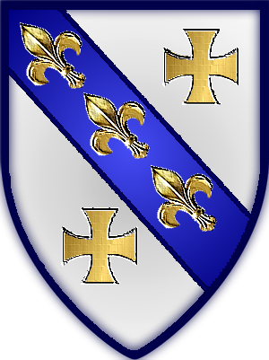 Reconstruction according to study: "Grbovi Vukčića Hrvatinića" "The Coat of Arms of Vukčić Hrvatinić family" Sulejmanagić, Amer (2015); Povijesni prilozi, Vol. 48 No. 48, 2015., pg. 33-68 (html / pdf) According to depictions in "Hrvoje's Misal"